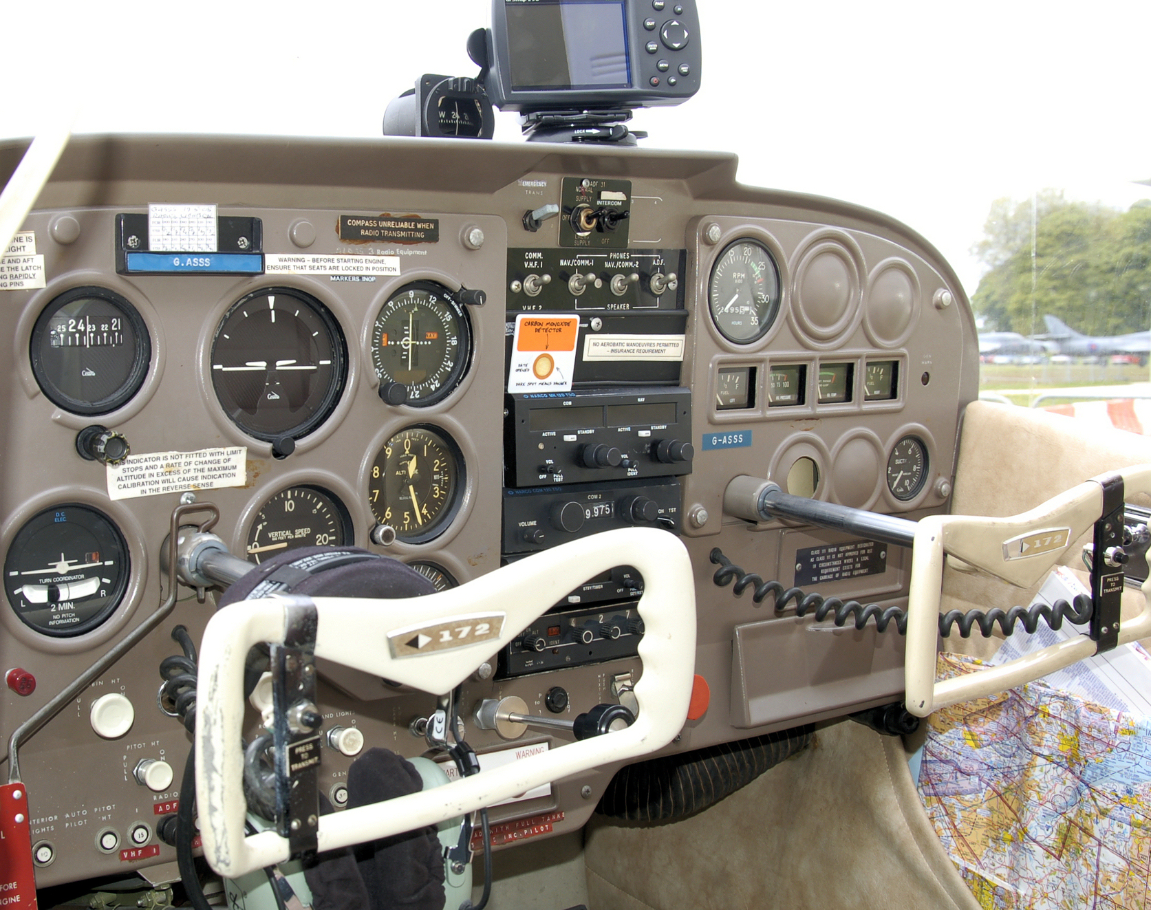 Cessna 172E (G-ASSS), built 1964, at a vintage aircraft rally (the Great Vintage Flying Weekend), Kemble Airport, Gloucestershire, England.